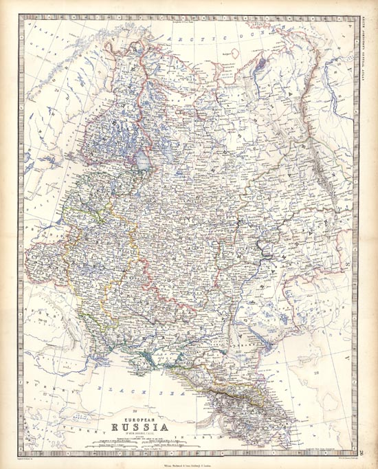 W & A.K. Johnston: European Russia. Detailed map of the region. Shows towns, railroads, rivers, lakes, mountains, railroad lines, sub-oceanic Telegraph lines, etc. Decorative Piano Key border. From Johnston's Handy Royal Atlas, one of the most popular English language atlases of the 2nd half of the 19th Century.